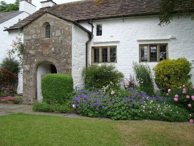 Brigflatts Meeting House (with one g in Quaker circles) (built in 1675) is a meeting house of the Religious Society of Friends (Quakers), near Sedbergh in northwest England. It is the subject of Basil Bunting's poem Briggflatts and a much shorter version. Meeting house website.